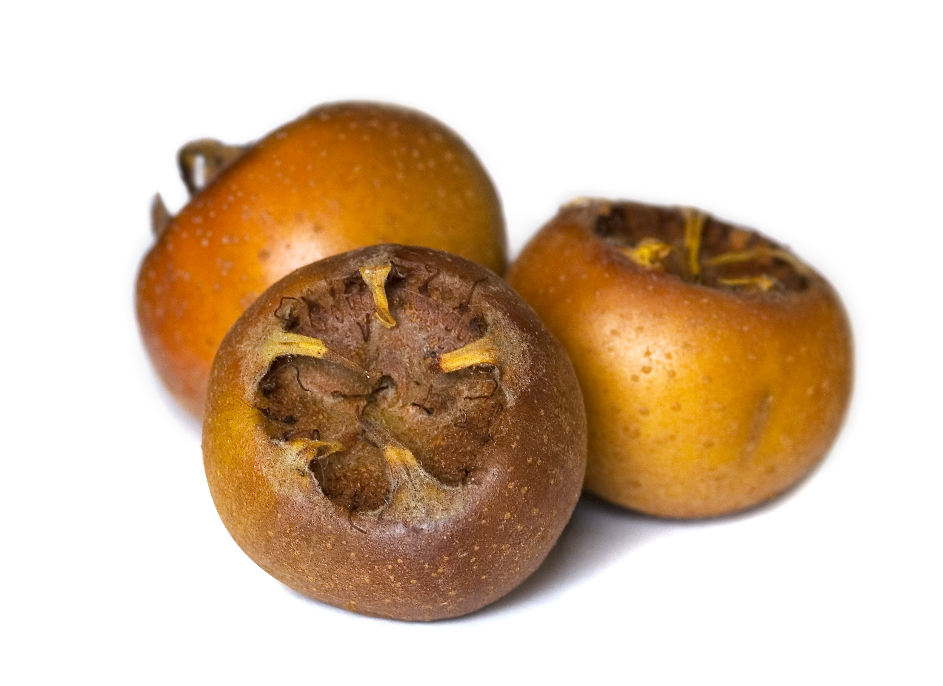 Medlar